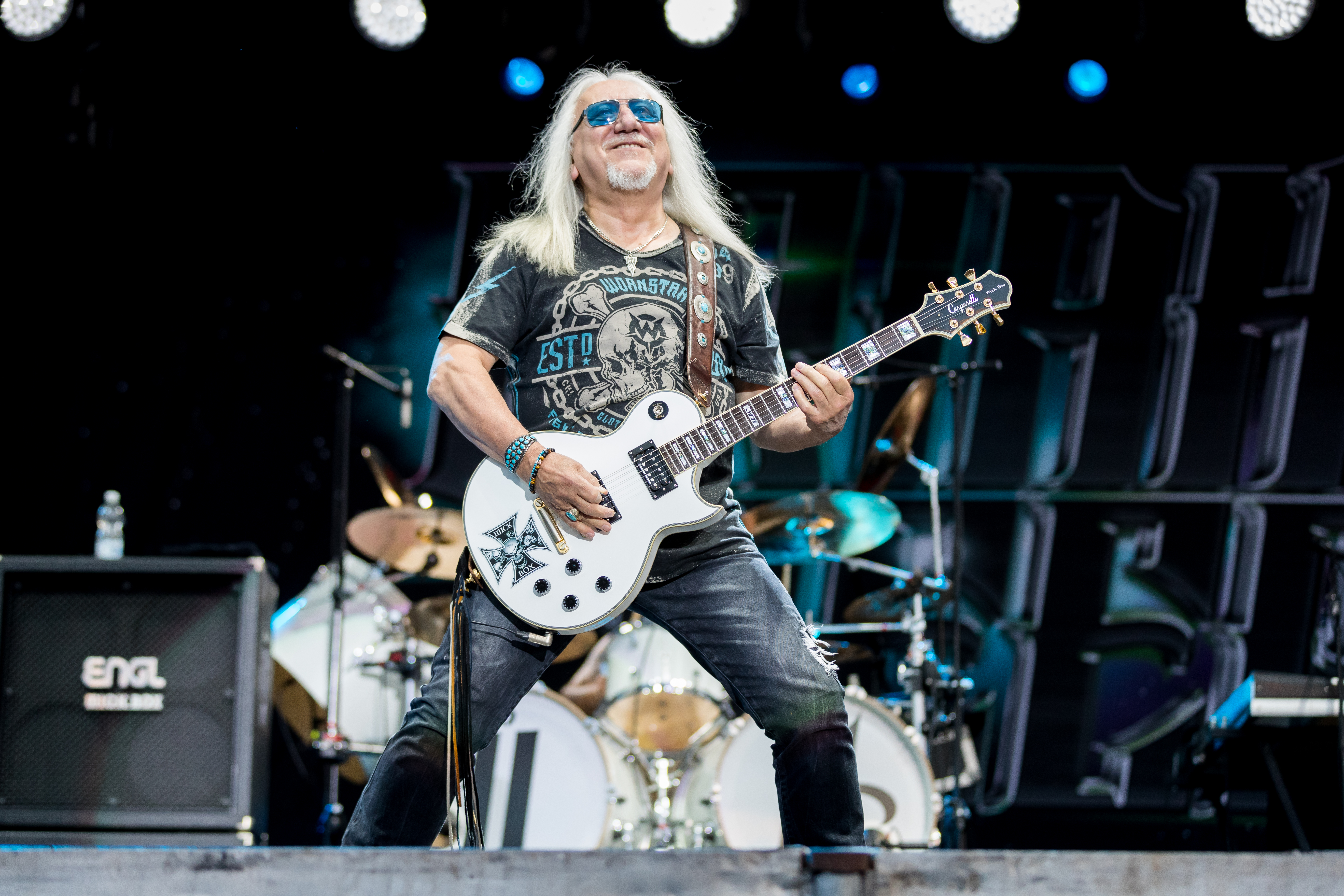 Uriah Heep @ Rock the Ring 2018